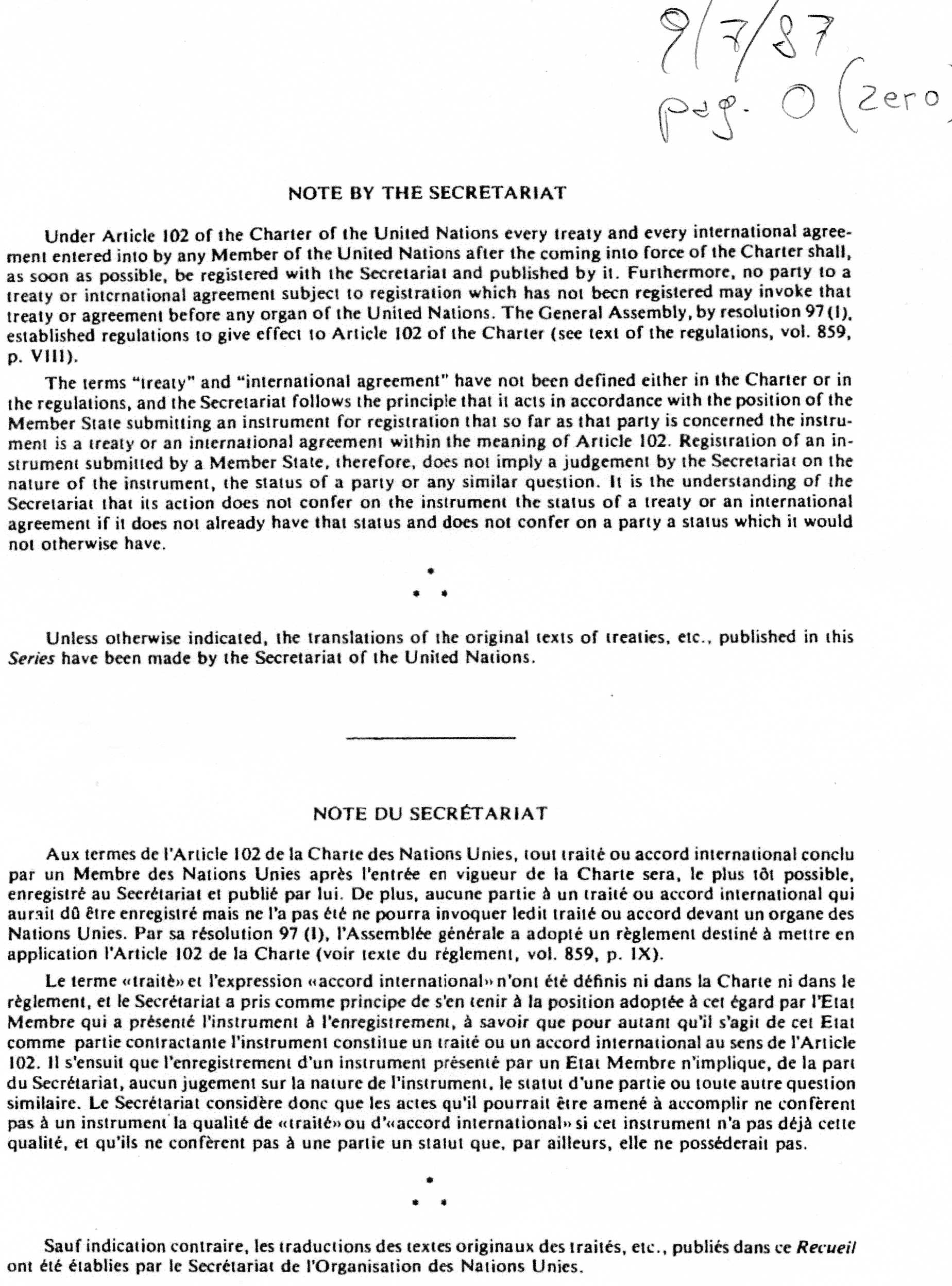 Page zero (United Nations statement) of the Osimo treaty.